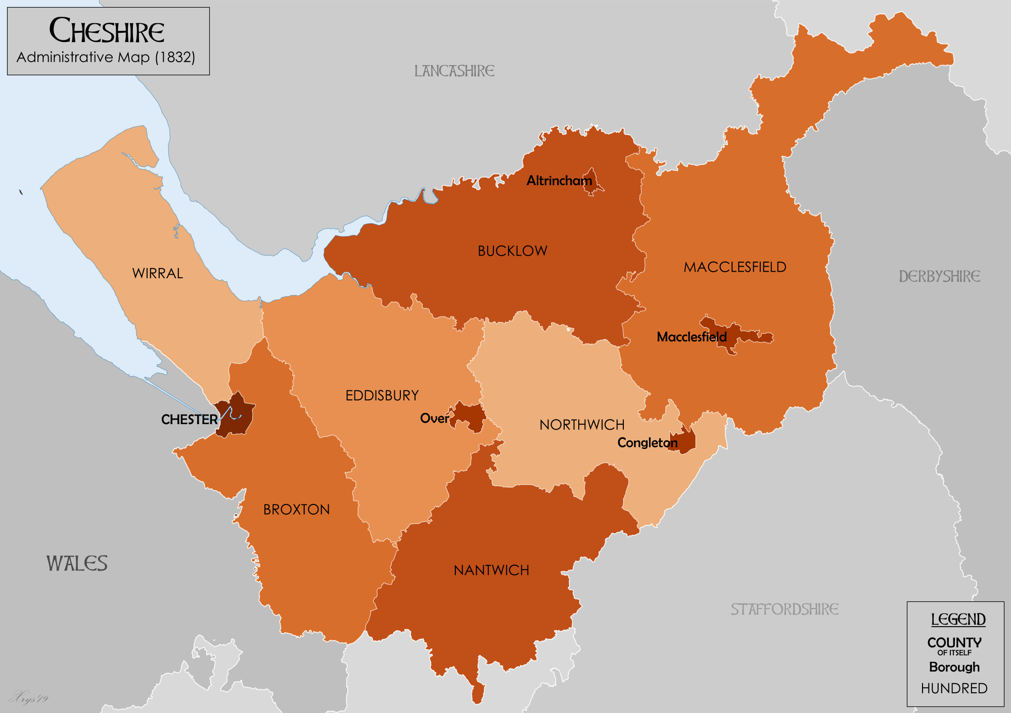 Administrative map of Cheshire in 1832 showing Hundreds. Also showing extant Boroughs and County and City of Chester. Hundred boundaries from University of Nottingham English Place Name Society. Source data for parish boundaries - Kain, R.J.P., and Oliver, R.R. (2001) "Historic parishes of England and Wales". Unit names and Borough Boundaries from Vision of Britain website.